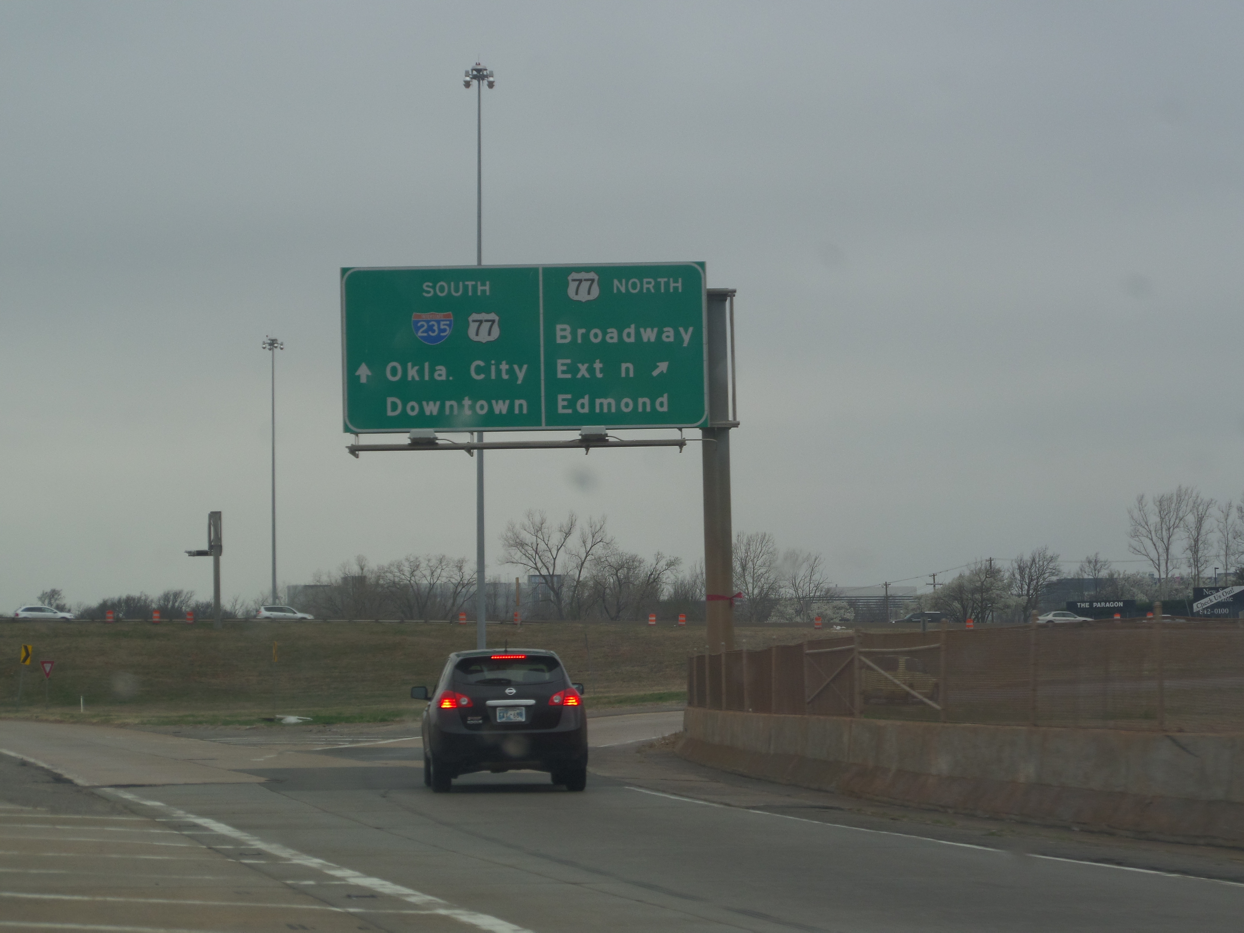 The I-44 and I-235/US-77 Junction in Oklahoma City